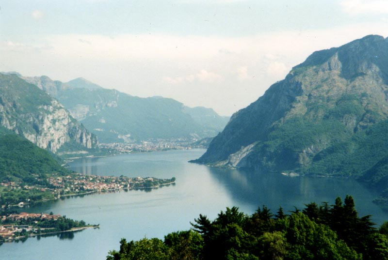 View of Lake Como's Lecco Arm, from near Civenna